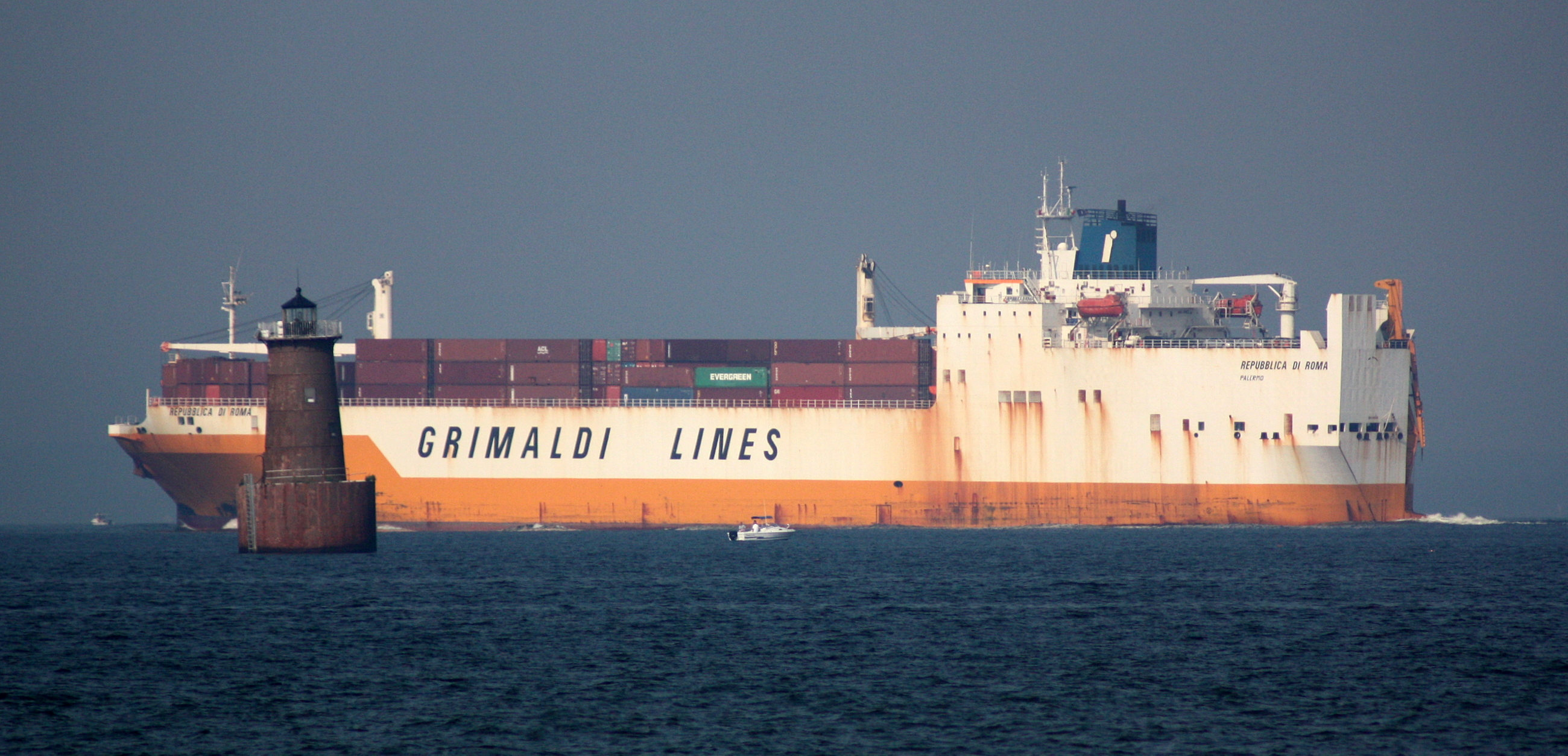 The cargo ship Repubblica di Roma near Bloody Point Bar Light in Cheasapeake Bay.